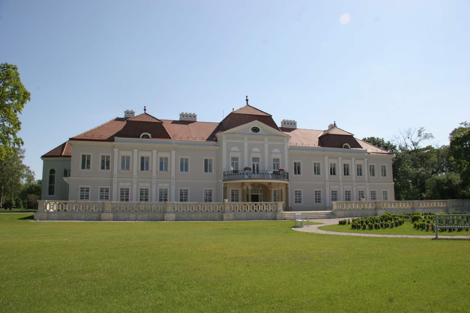 Historical Manor House in Tomasov, near Bratislava, Slovakia